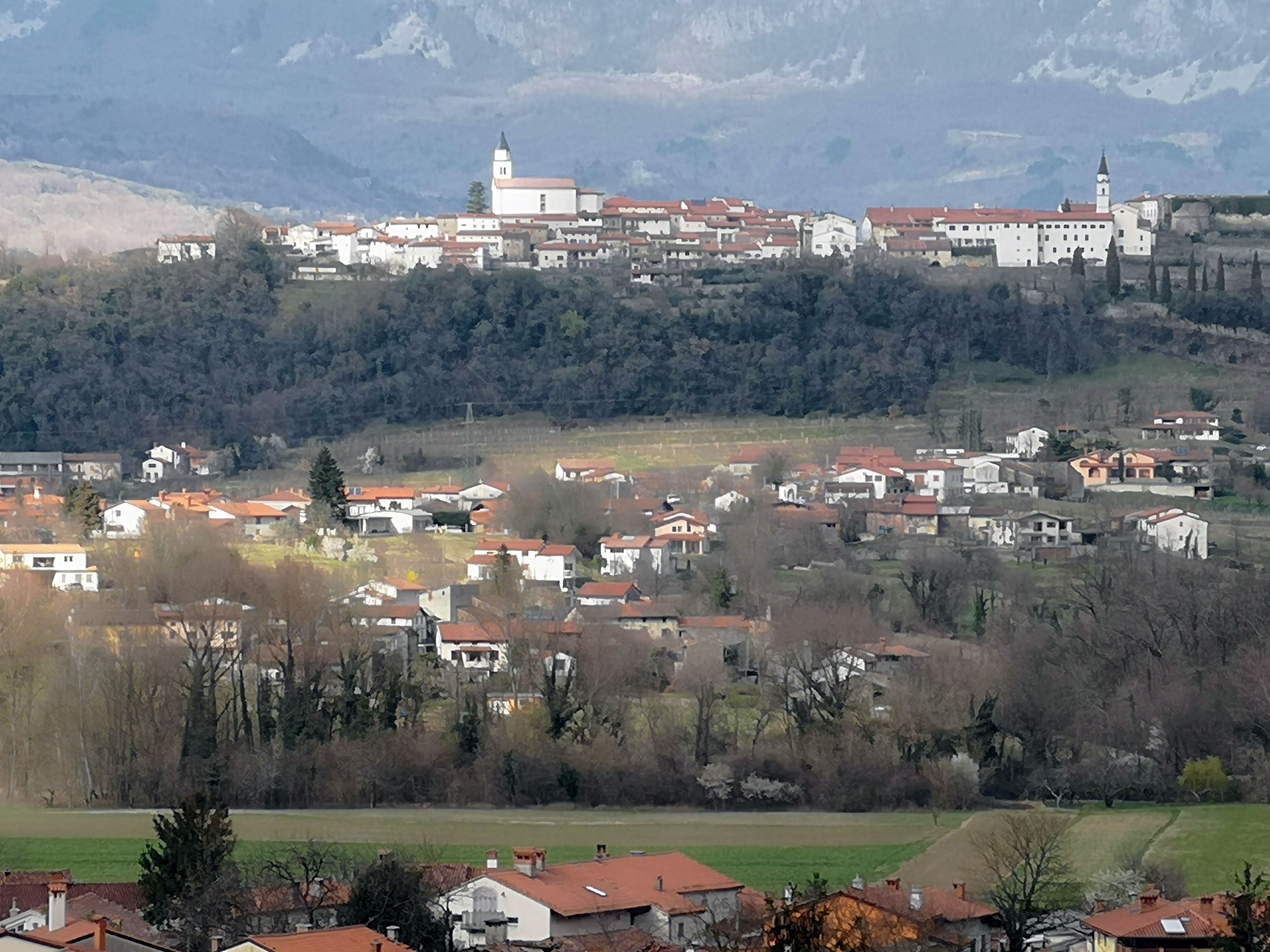 View of Male Žablje (in the front) and Vipavski Križ (on the hillock in the back).